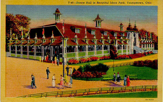 Idora Park, Youngstown, Ohio; postcard.